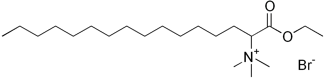 chemical structure of carbethopendecinium bromide (carbaethopendecine bromide, Septonex)